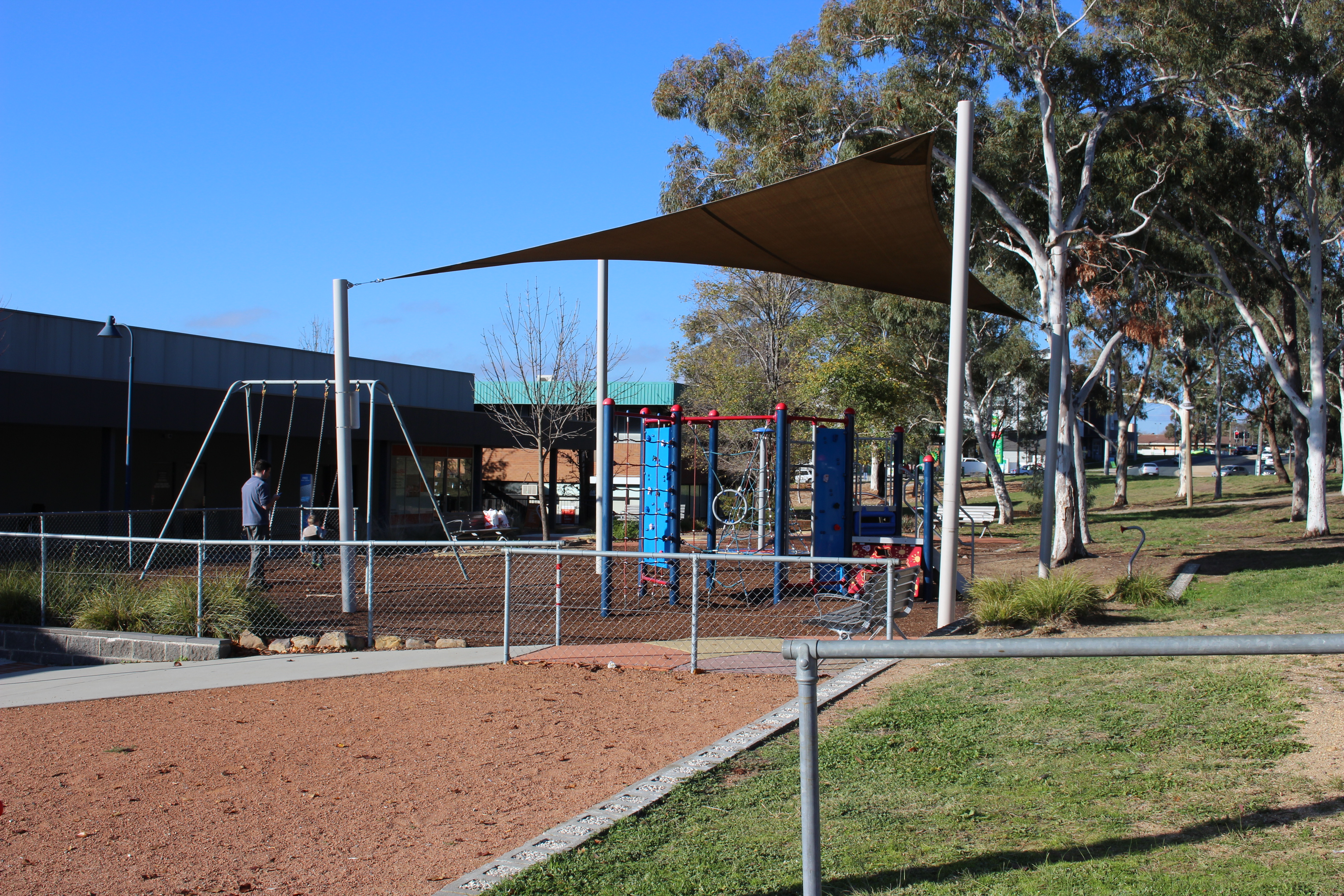 Jamison Centre play ground, Canberra